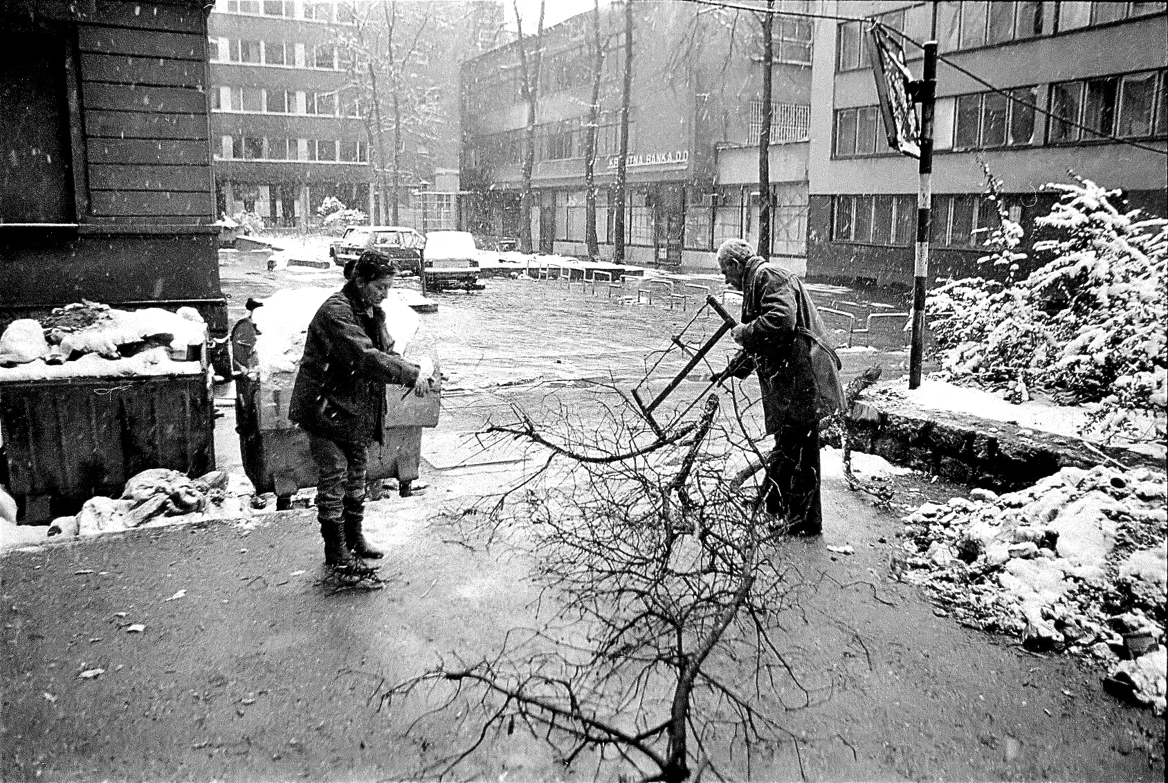 Sarajevo. Besieged residents collect firewood in the bitter winter of 1992. Christian Maréchal photo